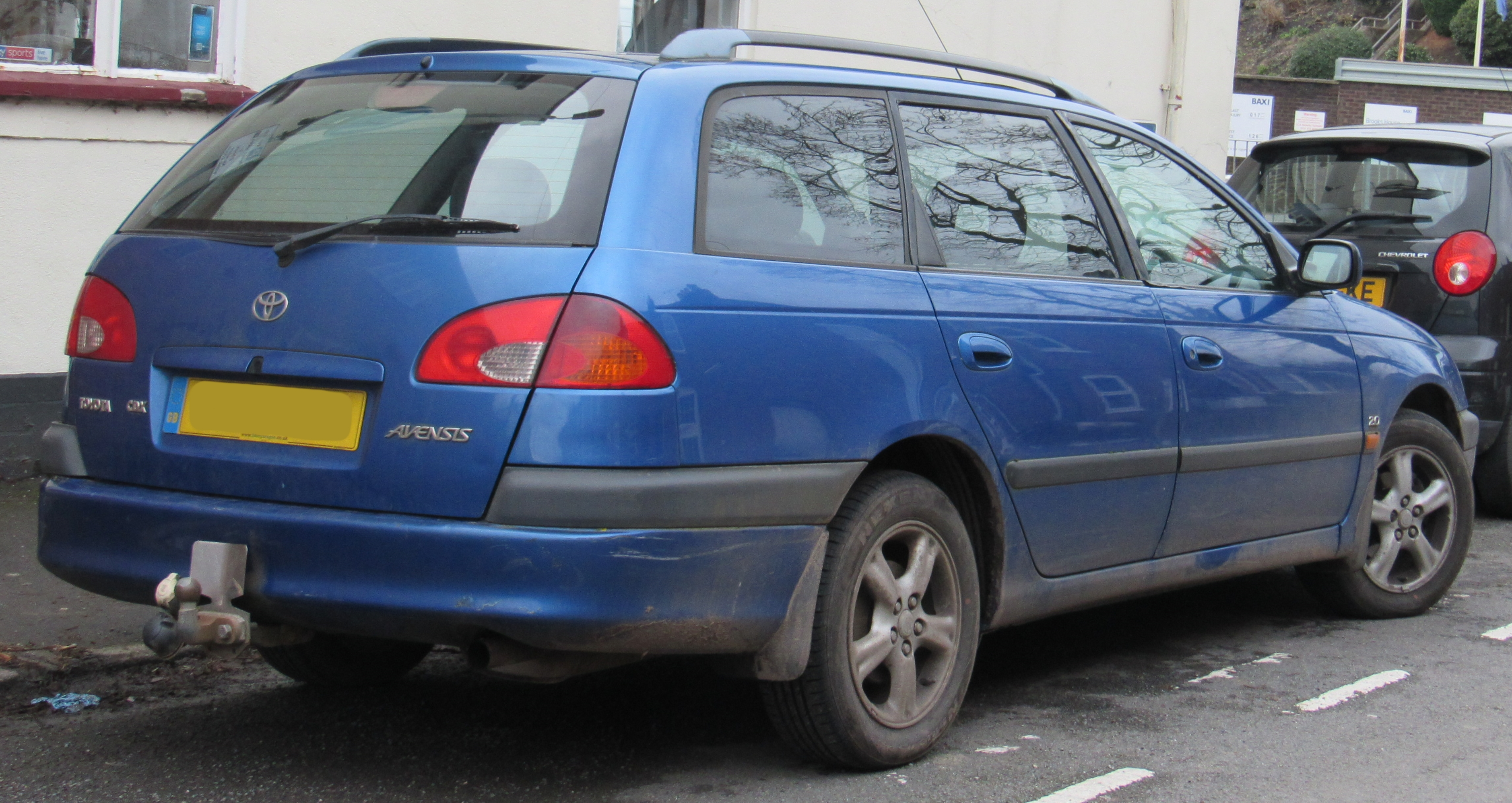 1998 Toyota Avensis CDX Estate 2.0 Taken in Warwick